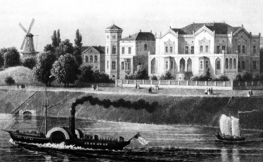 Lithography from the 19th century showing the Osterdeich at the river Weser (next to the Wallanlagen) in Bremen, Germany. On the left side the former mill on top of the Altmannshöhe can be seen (dismantled 1893), on the right side the former mansion Villa Wätjen (built in 185 by Heinrich Müller for the entrepreneur Christian Heinrich Wätjen, dismantled 1983).